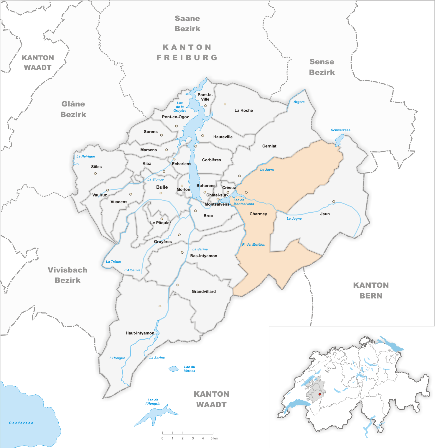 Municipality Charmey